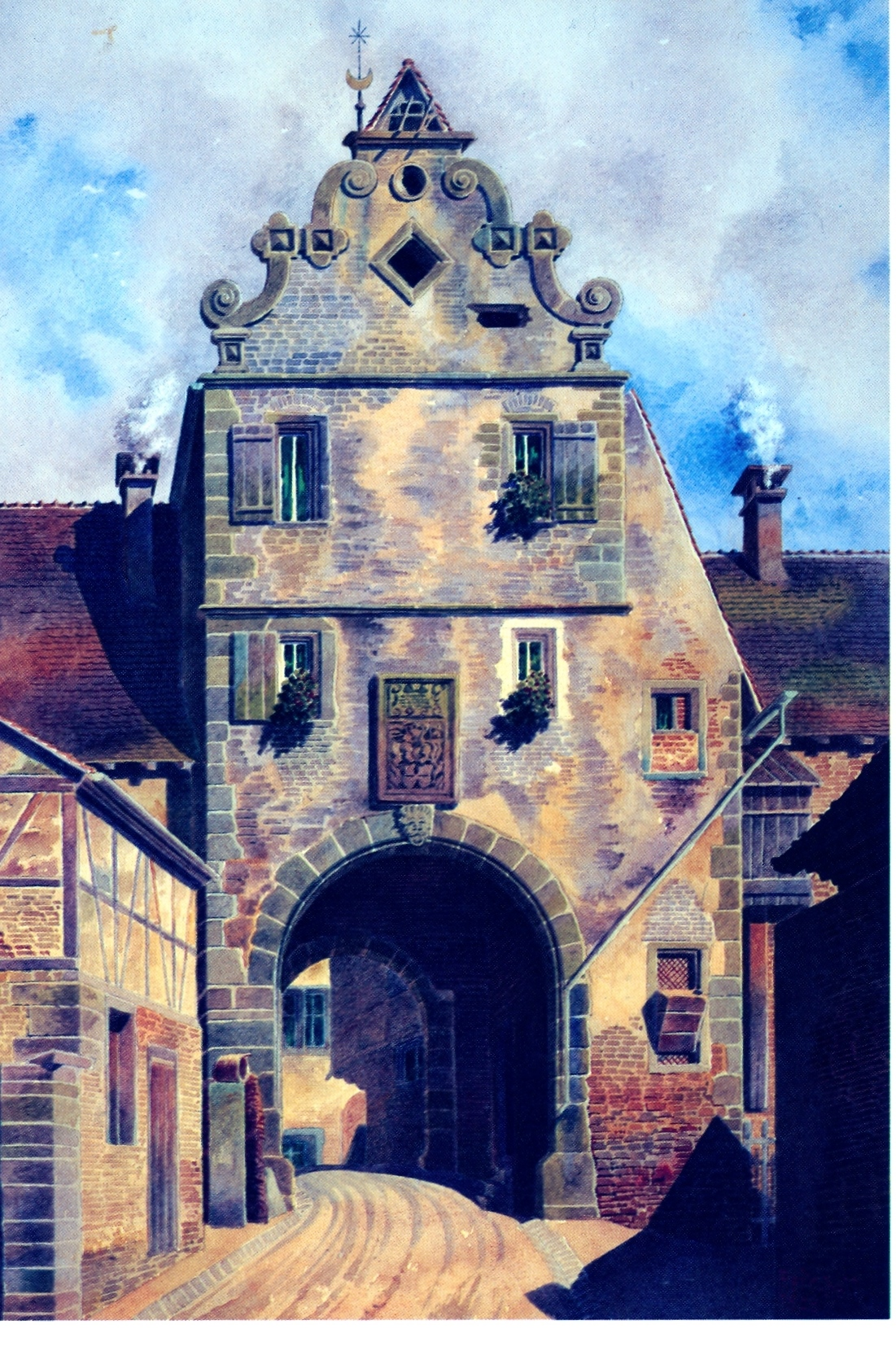 siehe oben